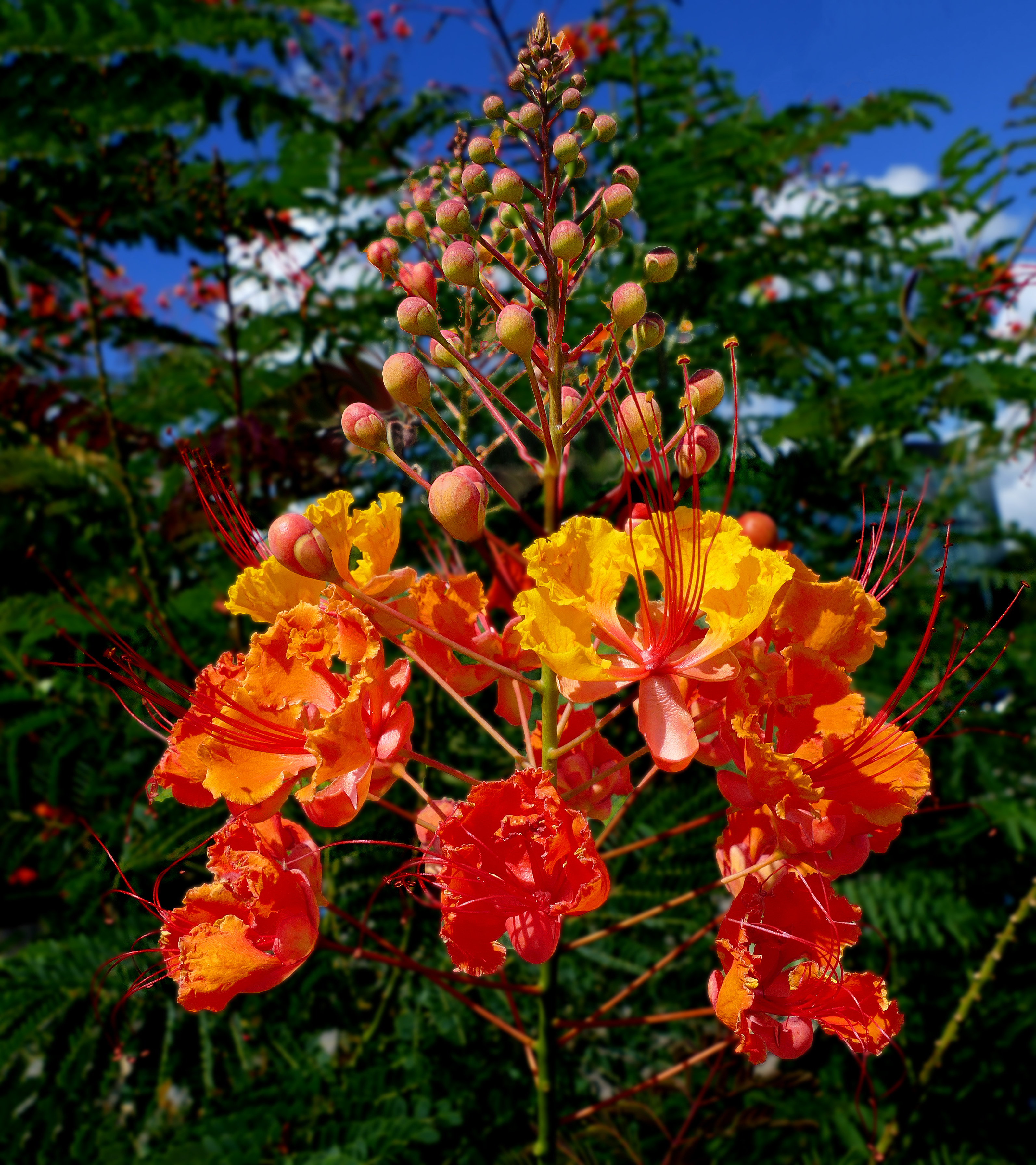 Variously named Peacock Flower or Pride-of-Barbados -- Caesalpinia pulcherrima